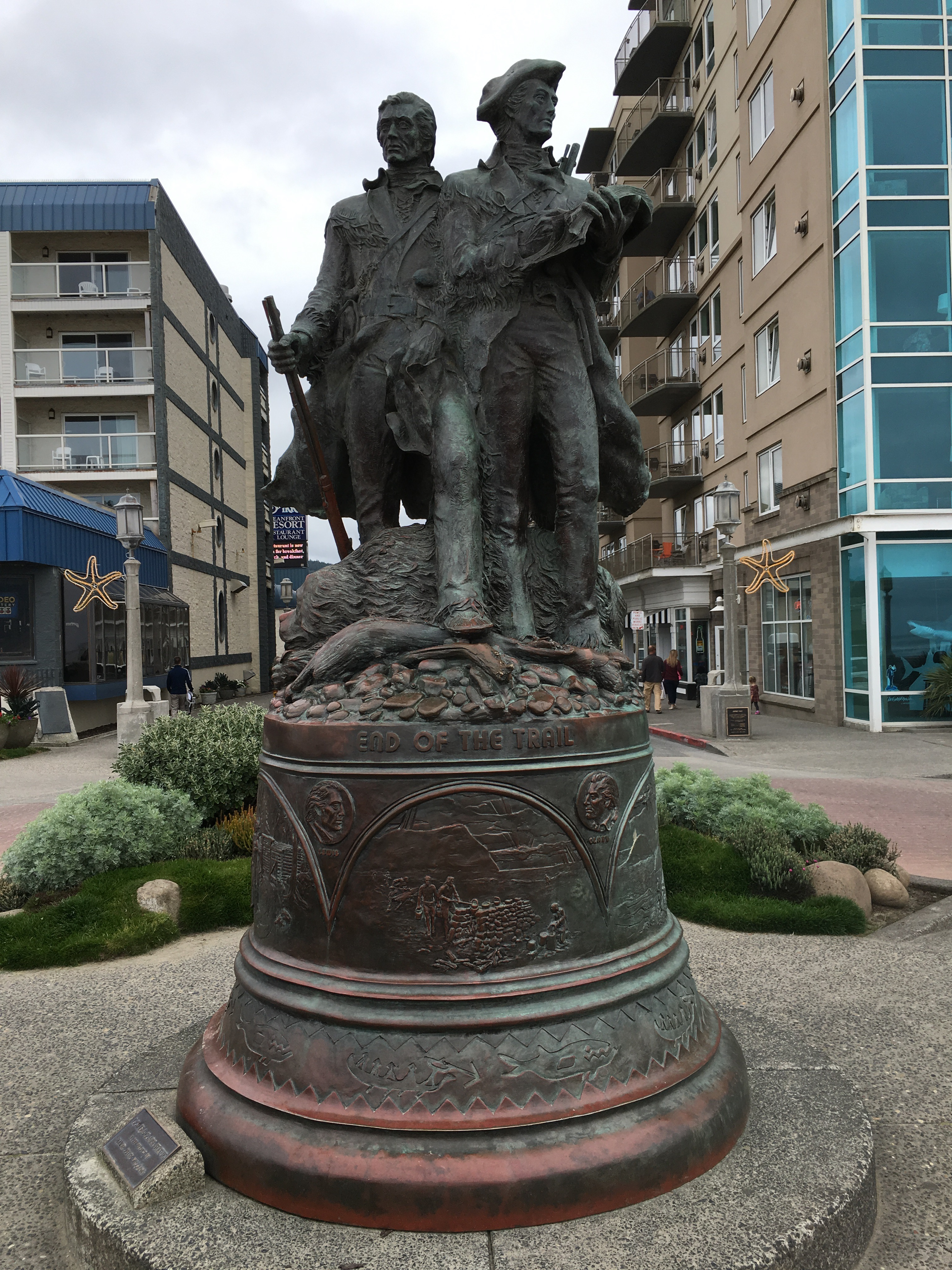 A statue of Lewis and Clark facing west towards the Pacific Ocean. Located in Seaside, Oregon.